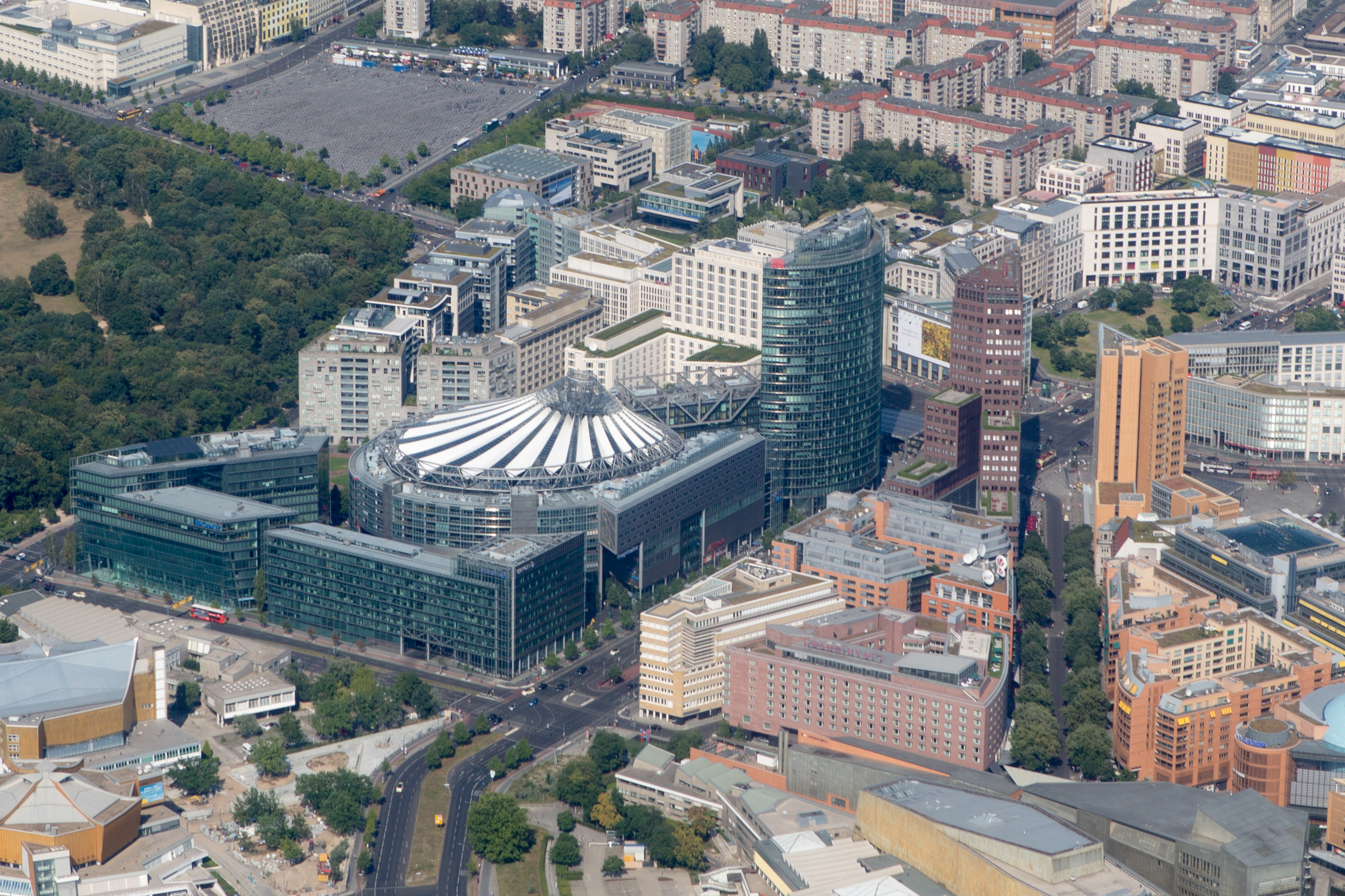 Aerial view of Potsdamer Platz, Berlin 2016